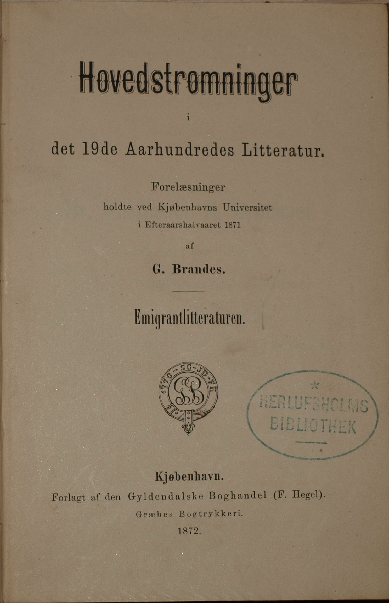 Førstetrykket af Georg Brandes' gennembrudsforelæsninger "Hovedstrømninger i det 19de Aarhundredes Litteratur" fra 1872. Senere udgaver havde Brandes' senere moderede ændringer.